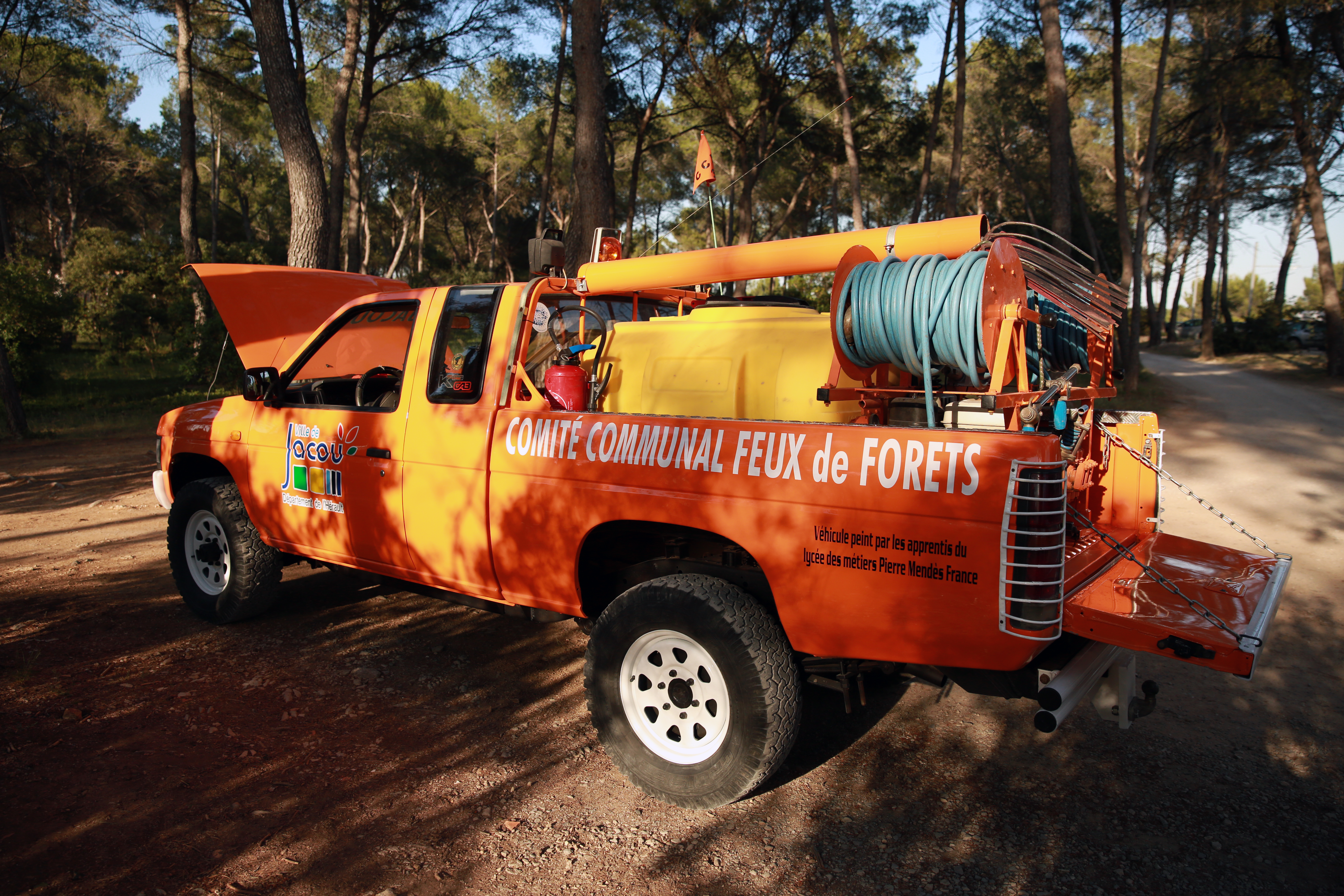 Our véhicule for summer patrols. We are volunteers to looking up the forests during summer time. Fires would be quickly outbreaking in the country and suburban area.